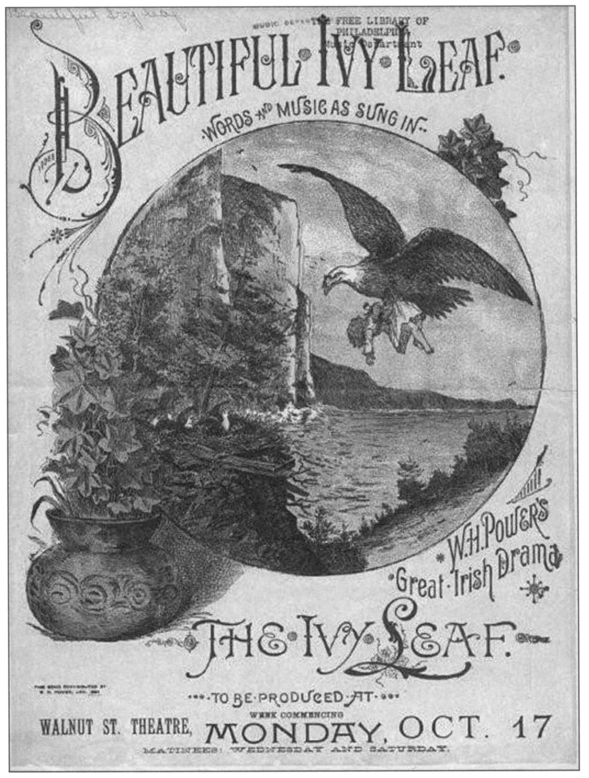 W. H. Powers, touring production of The Ivy Leaf, illustrated cover to piano and vocal music sheet, ca. 1901. The illustration shows striking similarities to the studio decoration in J. Searle Dawleys 1908 film Rescued From an Eagle's Nest